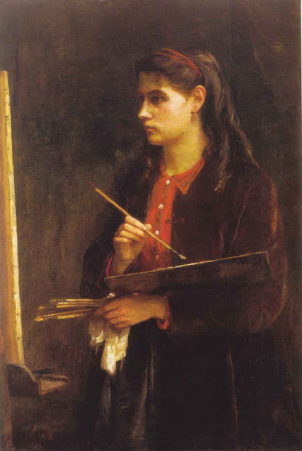 Portrait of the artist's sister